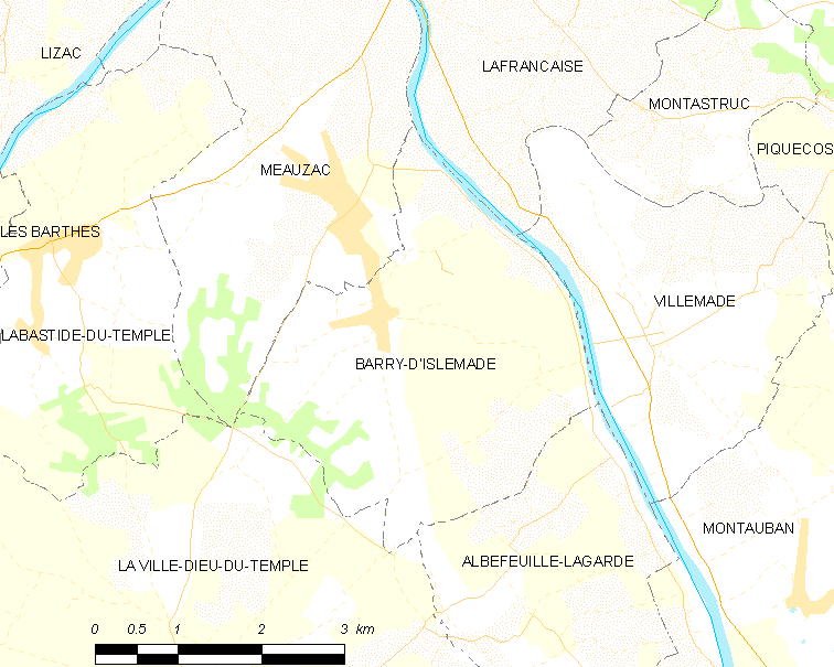 Map of French municipality Barry-d'Islemade